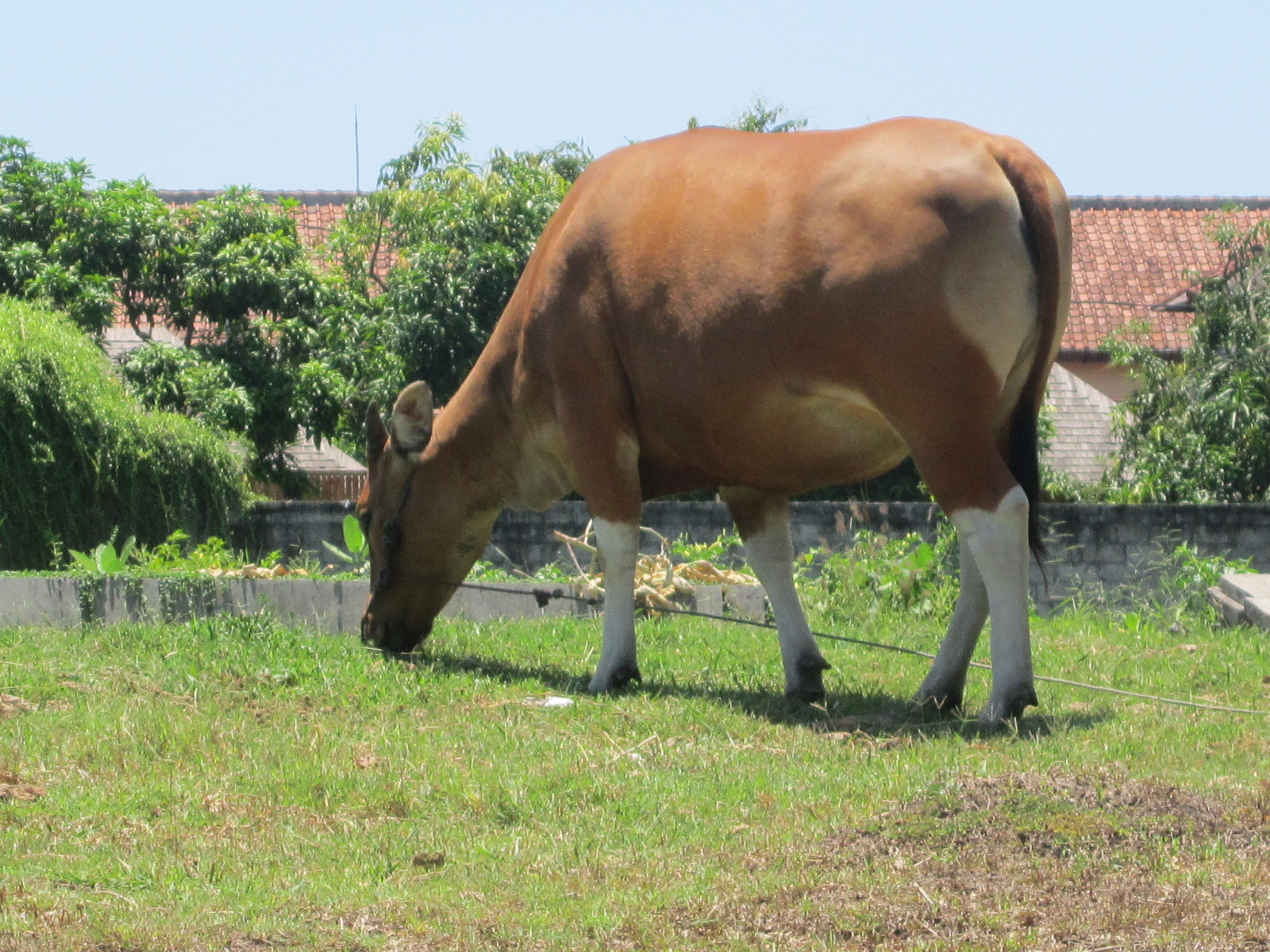 Balinese cow grazing in Seminyak